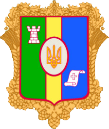 Coat of arms of Radomyshl Raion